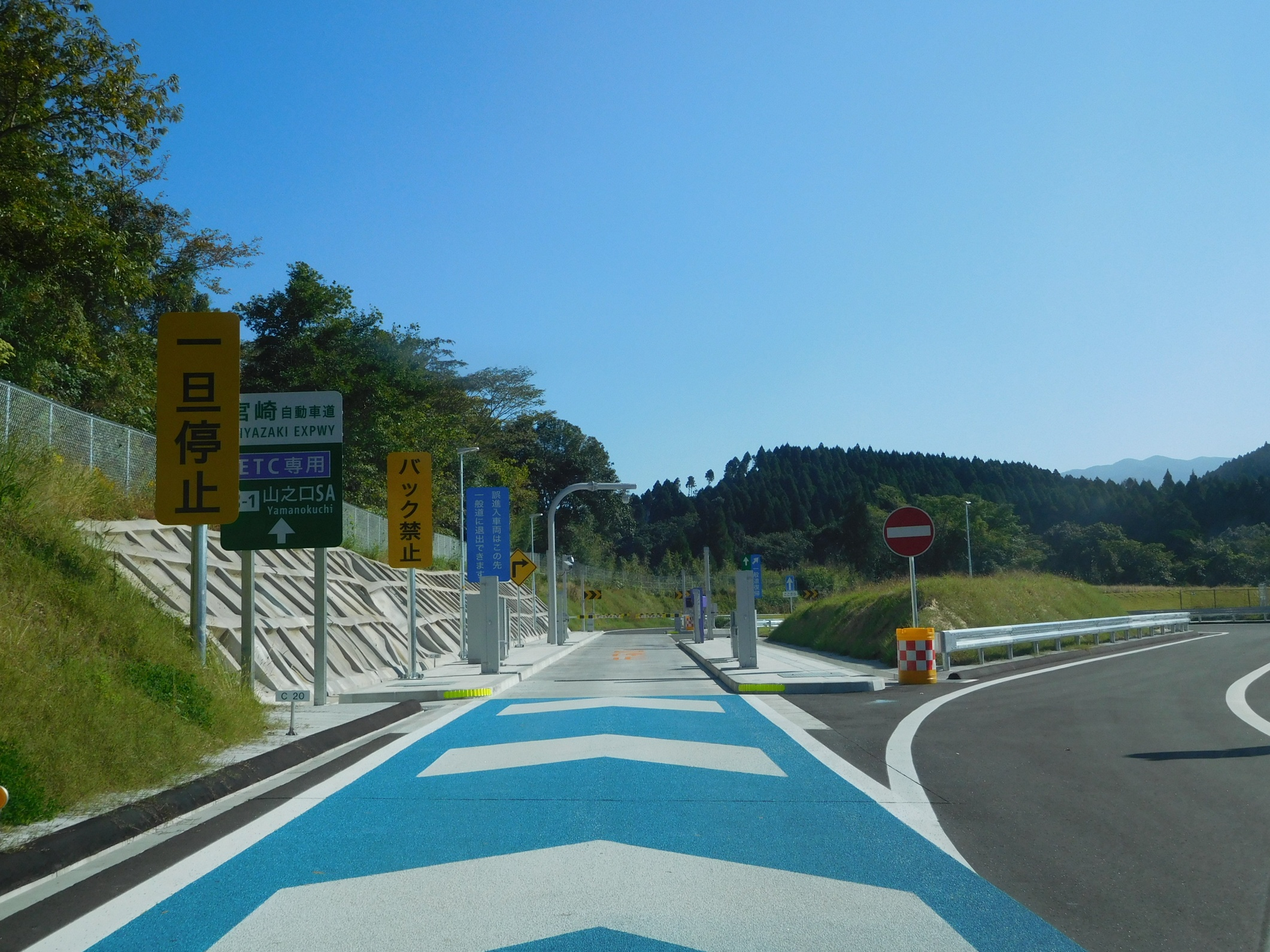 The Yamanokuchi Smart Interchenge (Northern side) of Miyazaki Expressway (Yamanokuchi, Miyakonojo City, Miyazaki, Japan)